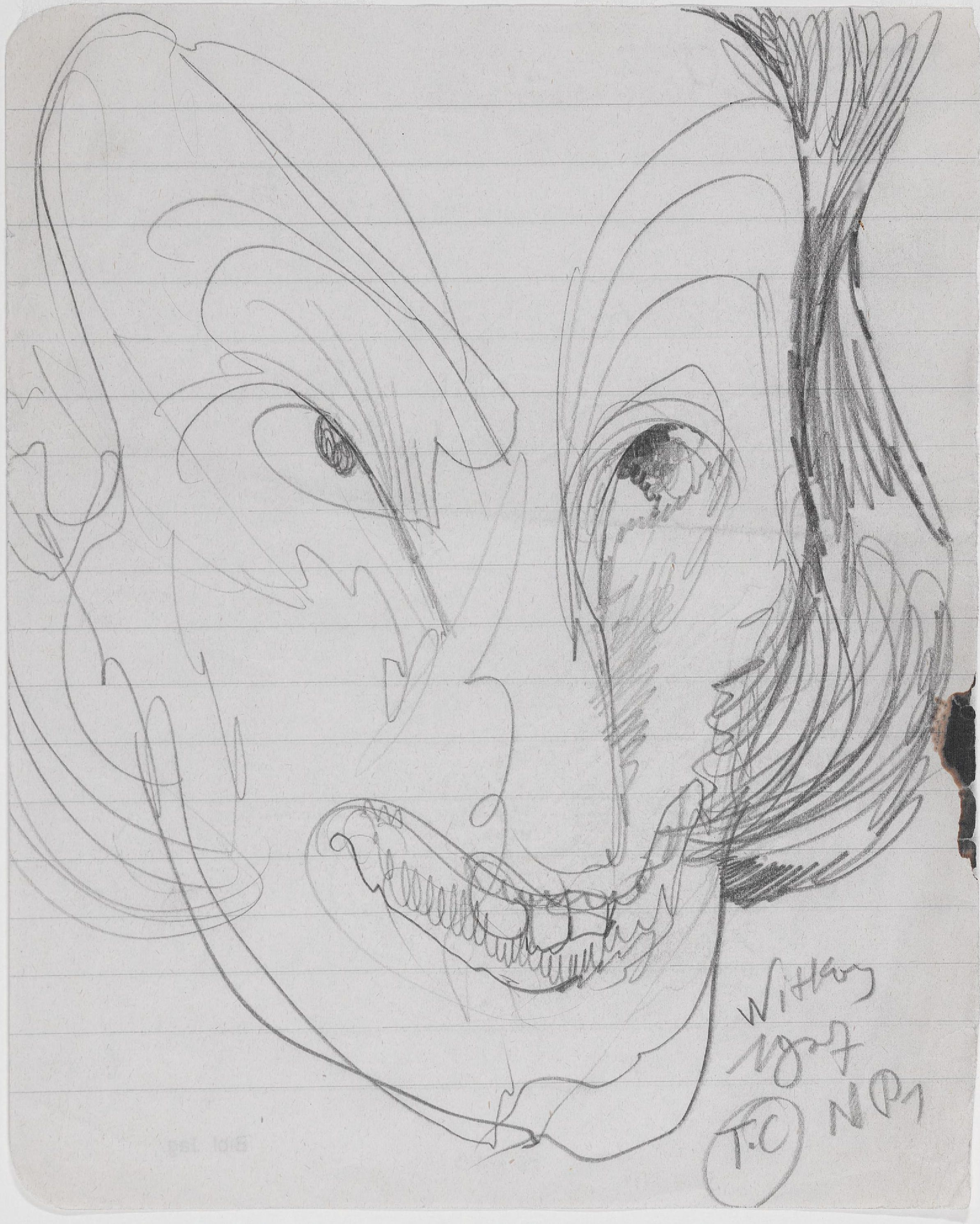 The portrait of Winifred Cooper by Stanisław Ignacy Witkiewicz (Witkacy), drawing.